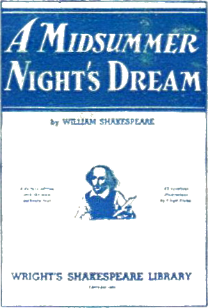 A photograph of an edition of A Midsummer Night's Dream from an advertisement for Wright's Shakespeare Library series by Farnsworth Wright in the pulp magazine Weird Tales (August-September 1936, vol. 28, no. 2).